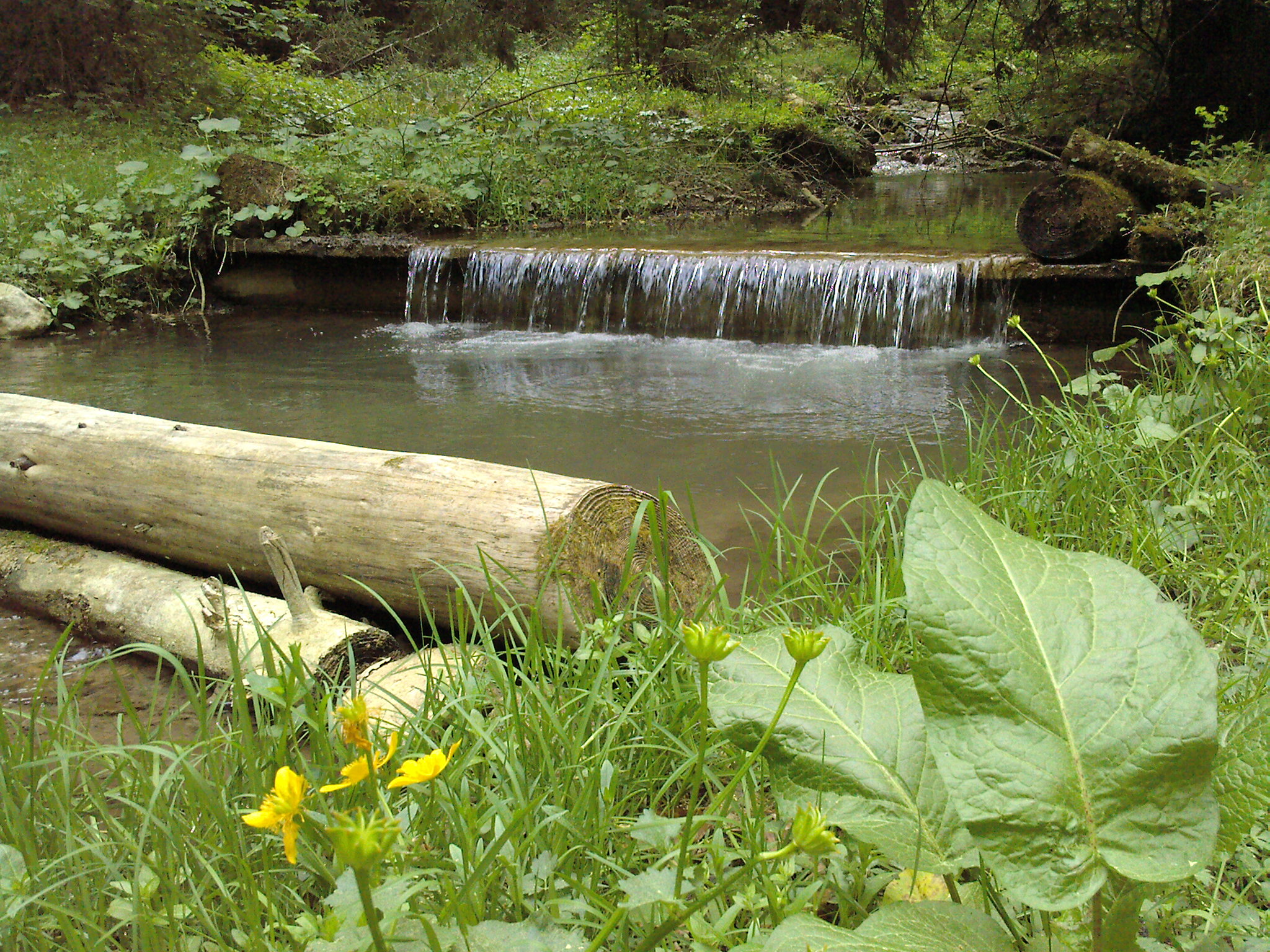 Pojaru River, Braşov County, Romania